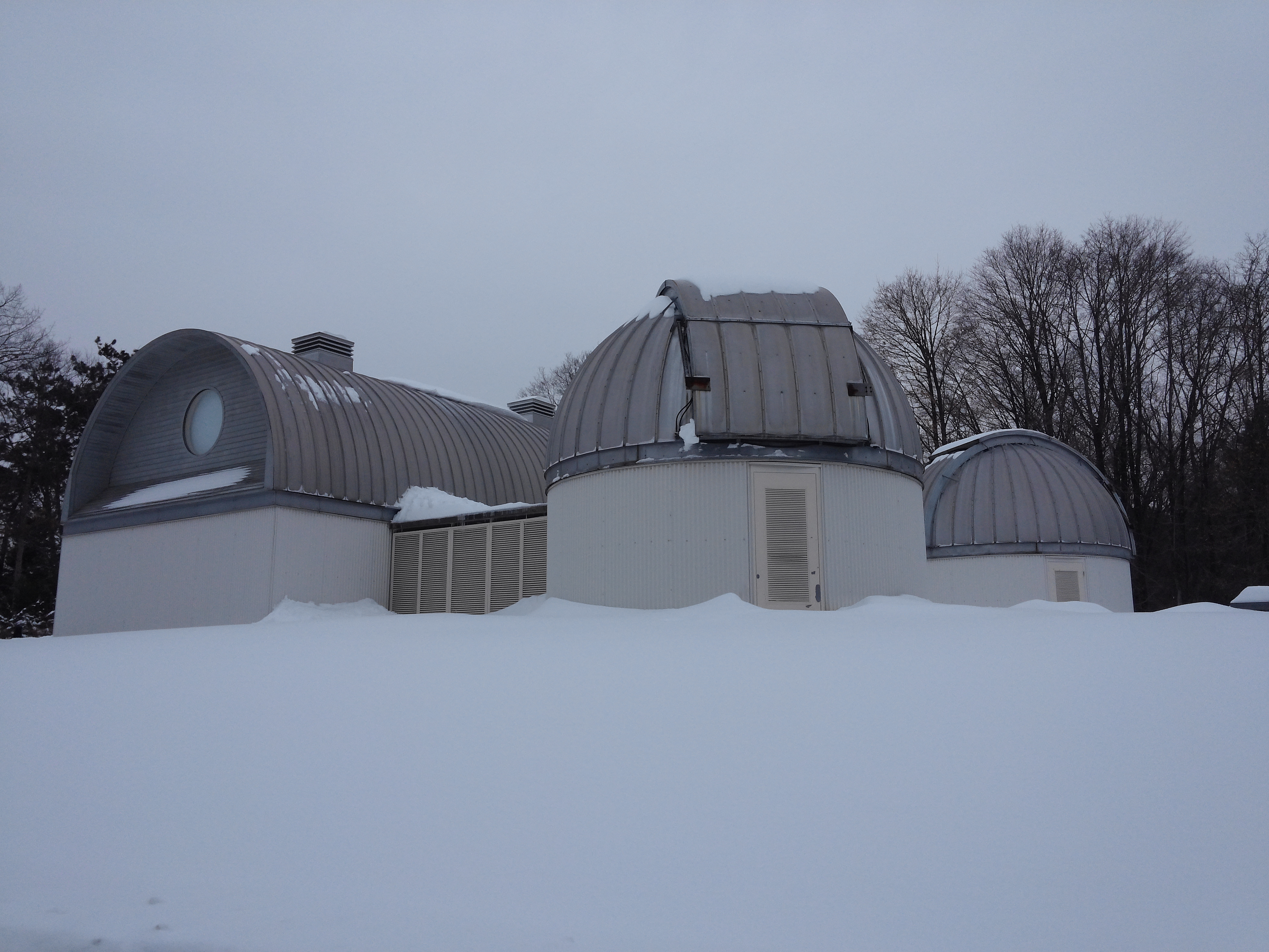 The Class of 1951 Observatory on the campus of Vassar College in Poughkeepsie, New York, US.